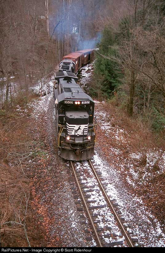 A Norfolk Southern General Electric Dash-8 diesel-electric locomotive assisted by an EMD GP50 crosses North Fork Creek between Willits-Ochre Hill and Addie on the Murphy Branch. Photo by Scott Ridenhour. Used with permission.